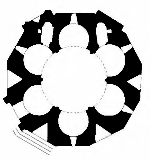 Floor plan of Ani's Abugamrenc church